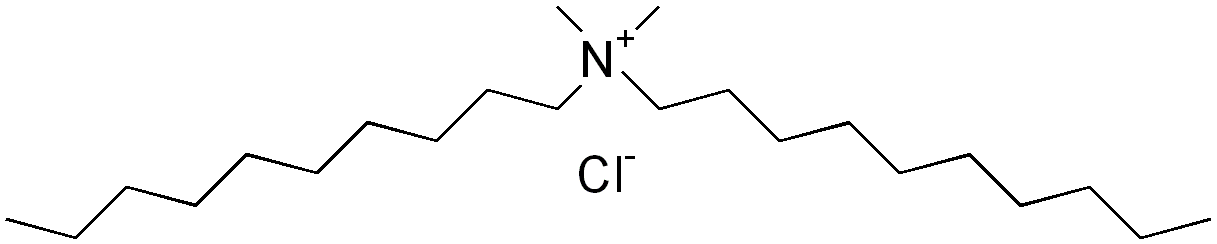 chemical structure of didecyldimethylammonium_chloride